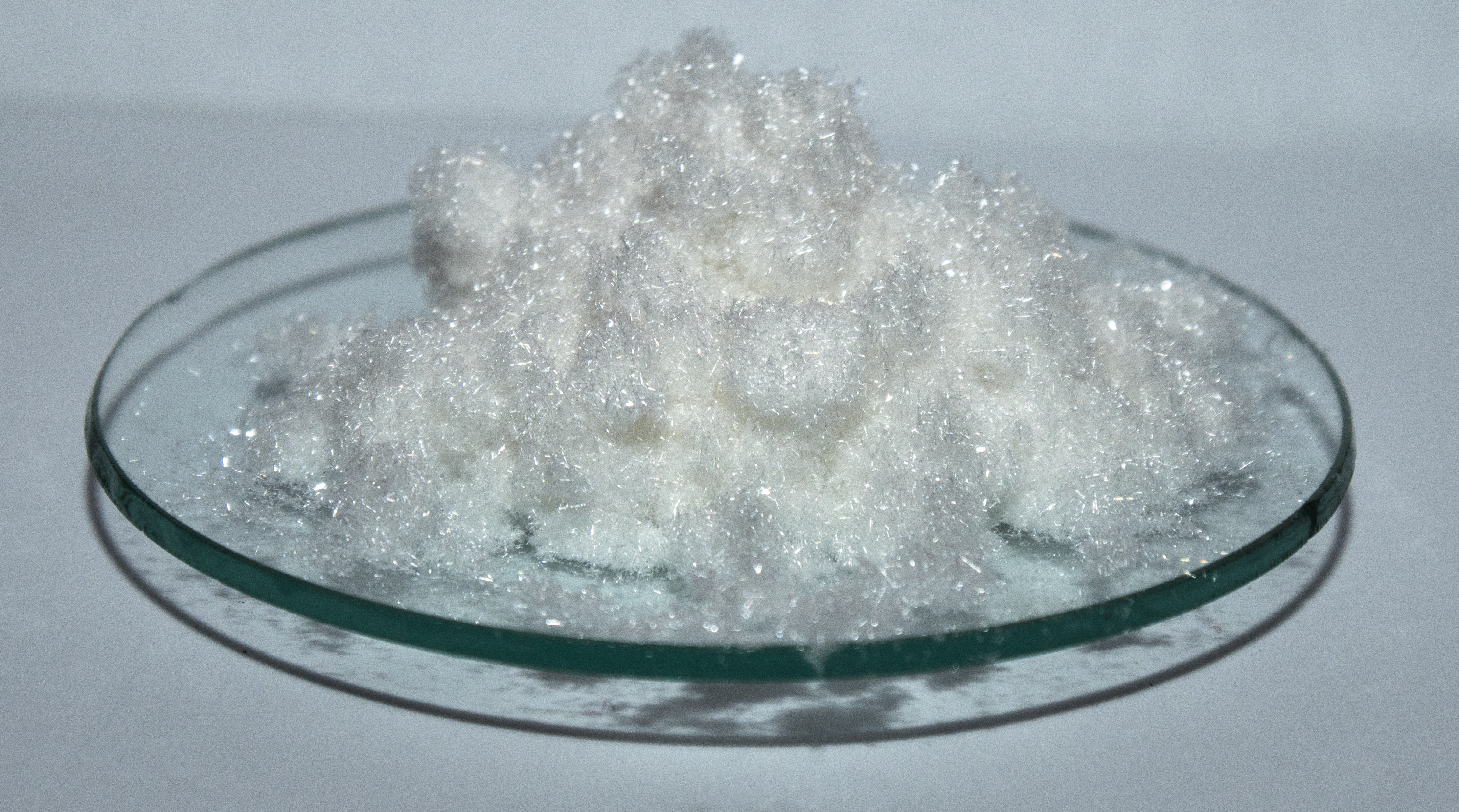 Sample of salicylic acid